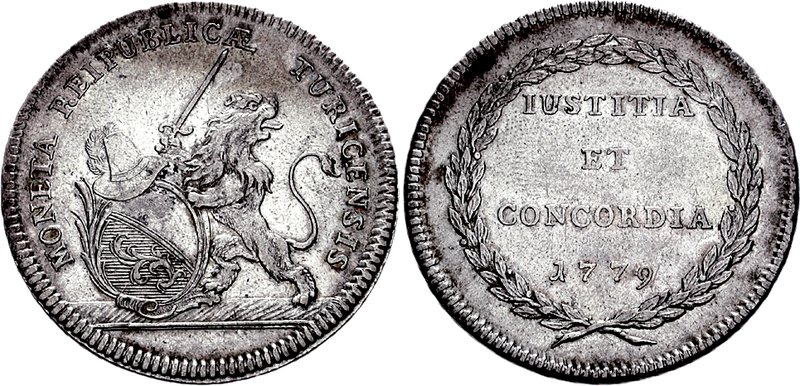 Switzerland, Zürich. AR Thaler (26.14 g, 12h). Dated 1779. Lion standing left on hind legs, holding sword and resting left paw on hatted coat of arms of Zürich IUSTITIA / ET / CONCORDIA in three lines within laurel wreath. Divo & Tobler 428; HMZ 1163; Davenport 1795.